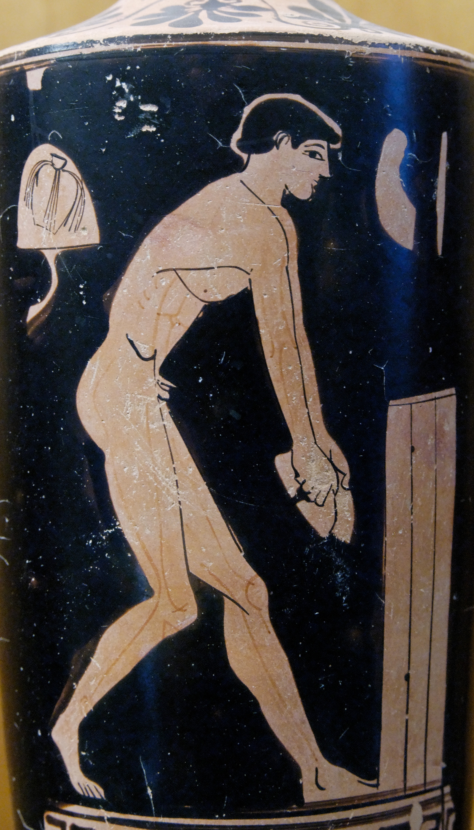 Athlete preparing to jump; sponge, strigil and aryballos are suspended on the wall. Attic red-figure lekythos.